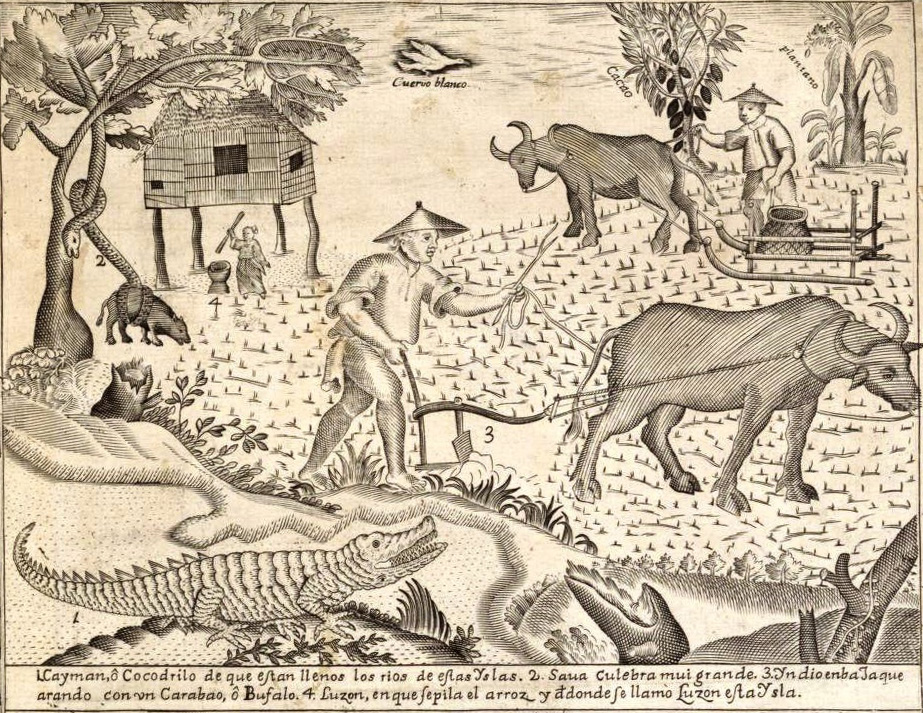 Various Philippine animals and plants, detail from Carta Hydrographica y Chorographica de las Islas Filipinas (1734). Captions in